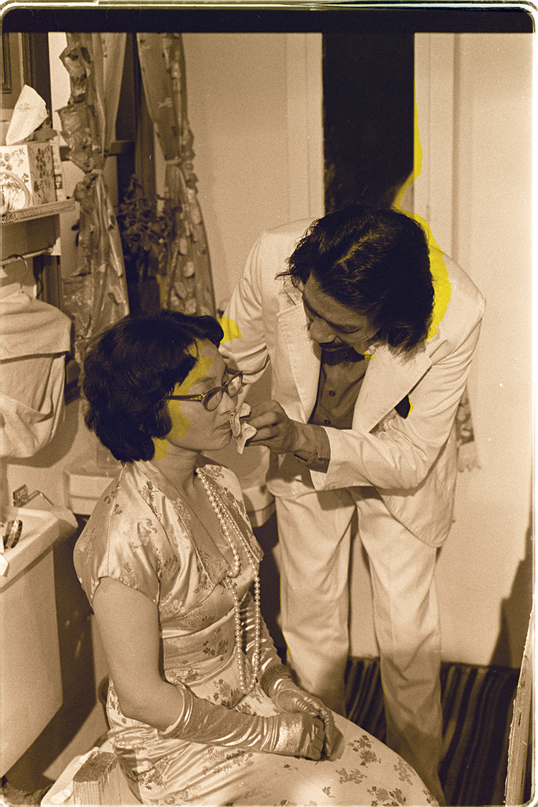 Playwright Frank Chin as "Fred Eng" in "The Year of the Dragon," comforts his mother, "Hyacinth," in a production by the Asian American Theater Workshop in San Francisco, 1978. Photo by Nancy Wong